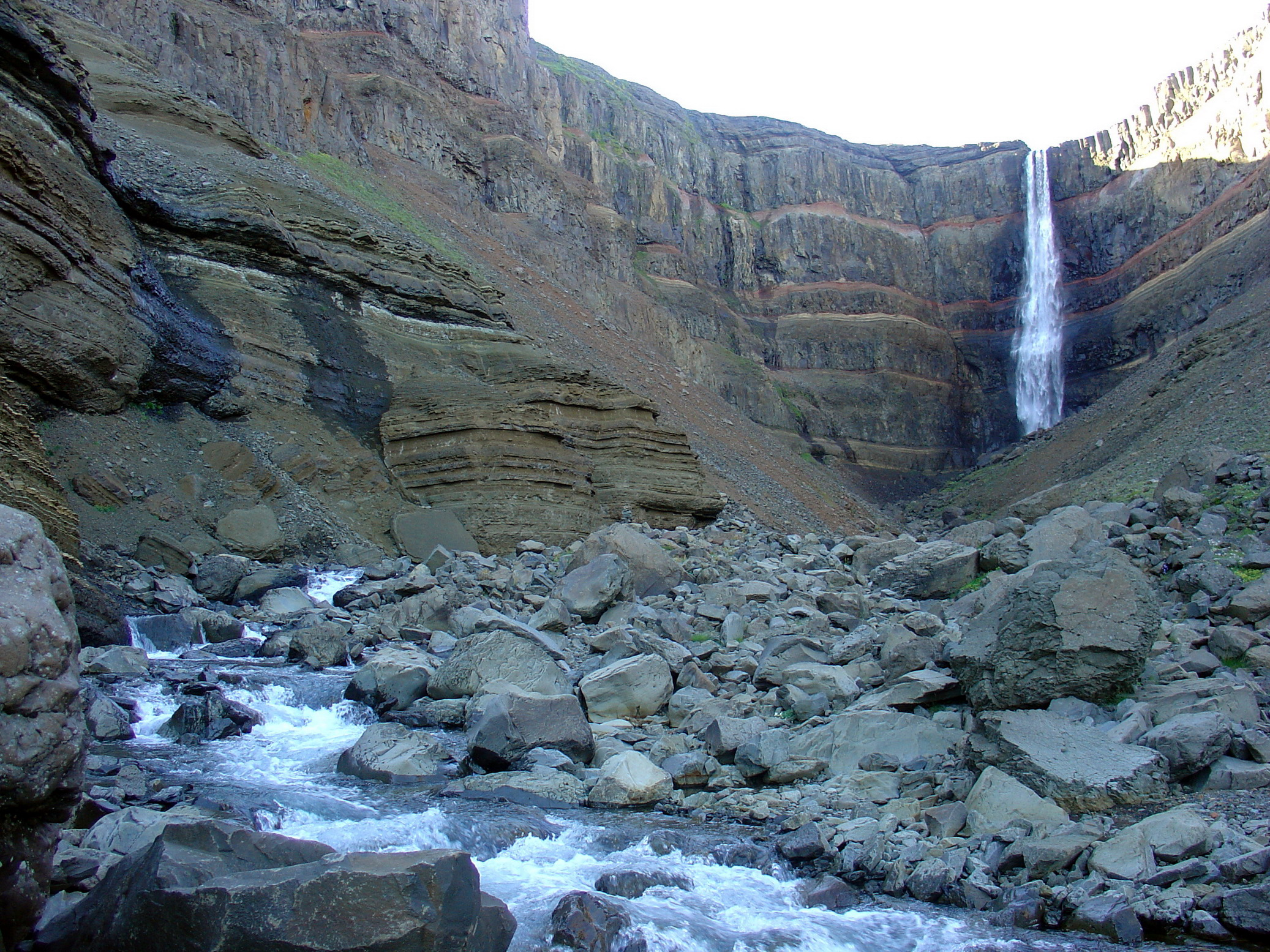 Waterfall Hengifoss - Eastern Iceland